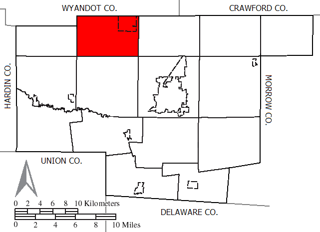 Made by the US Census and modified by myself to highlight the township